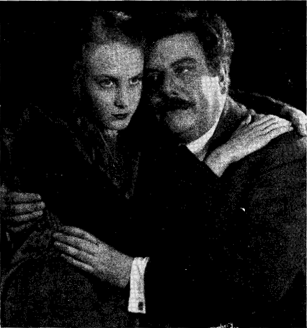 Swedish actors Ann-Mari Brunius and John Brunius